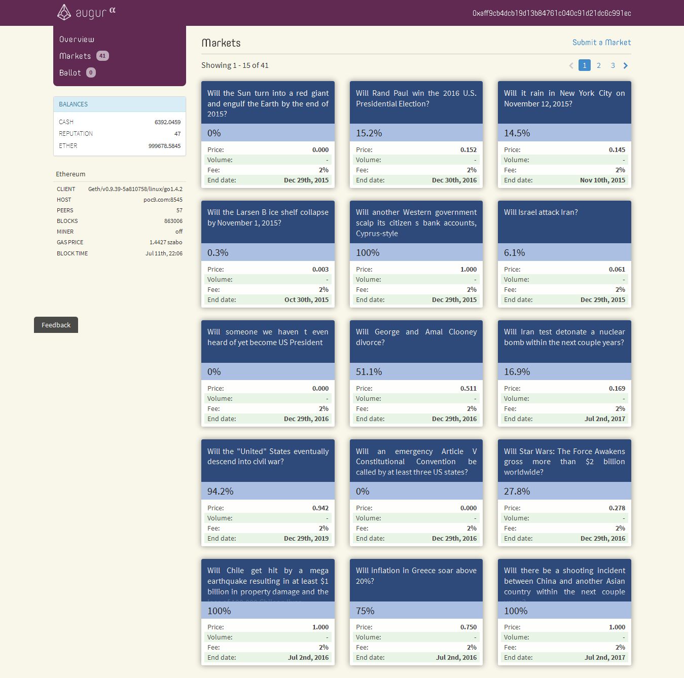 Augur, decentralized prediction market platform Dashboard